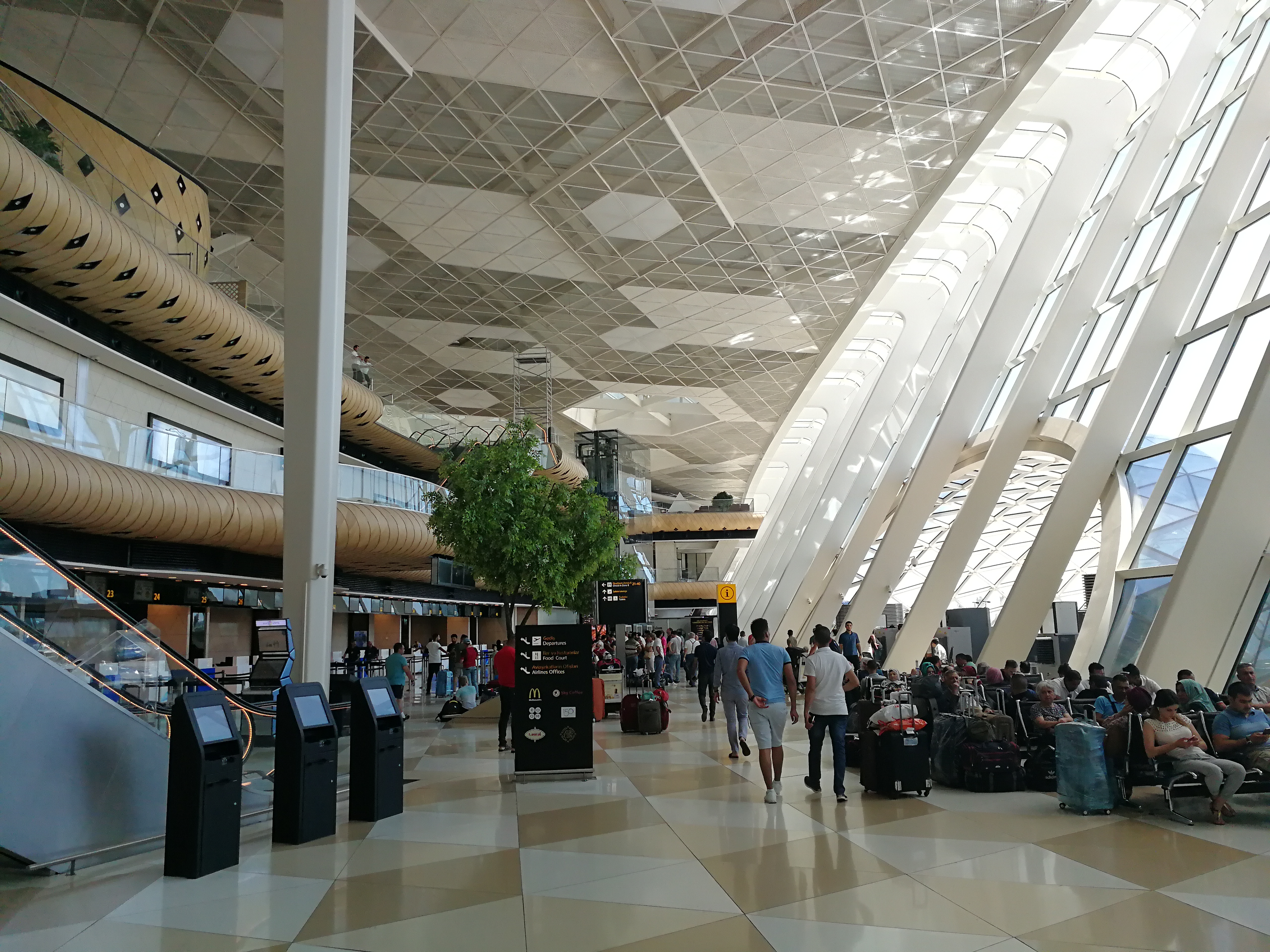 Heydar Aliyev International Airport, Baku